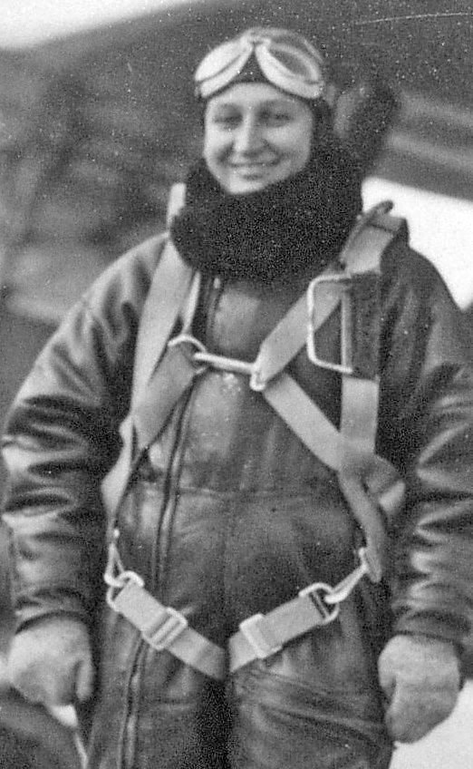 Author Janusz 'Ency' Dorożyński Photo of this photo taken with permission of Lusowo Museum (near Poznań) 2005-05-17